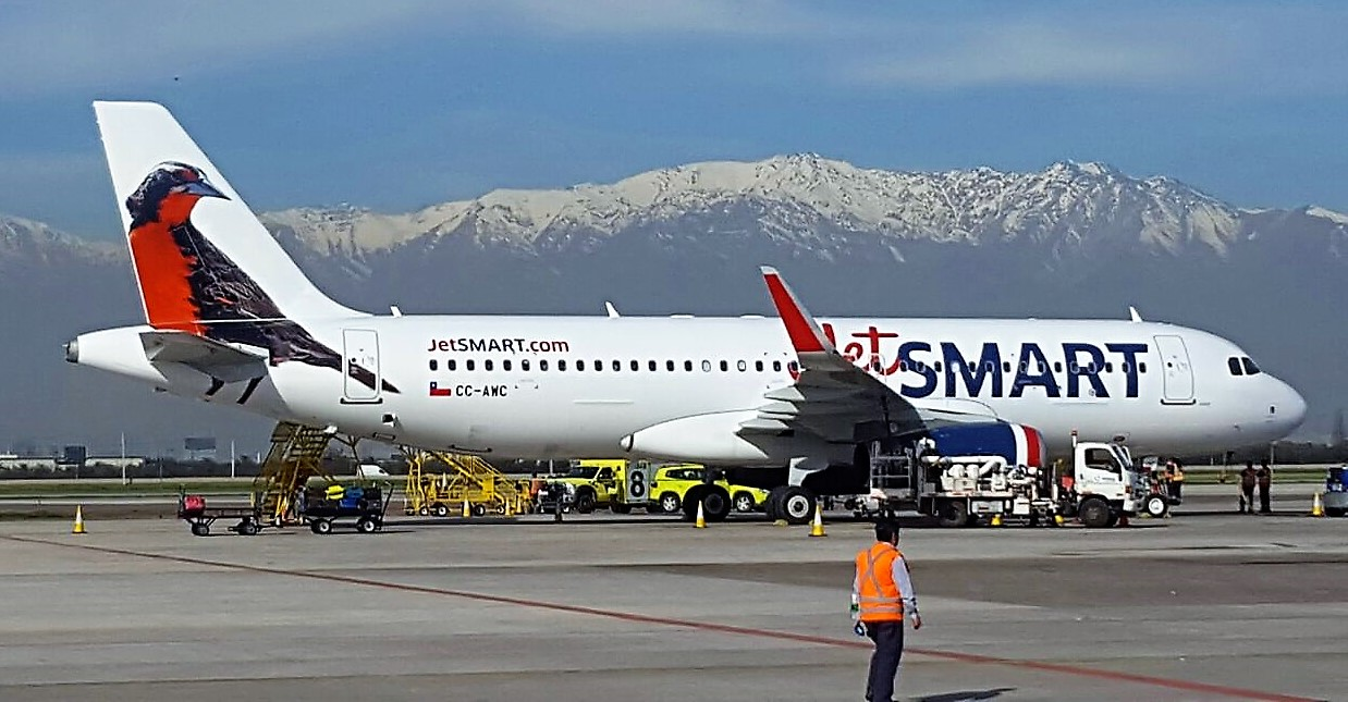 A JetSmart Airbus A320-232 in Santiago Internatinal Airport.